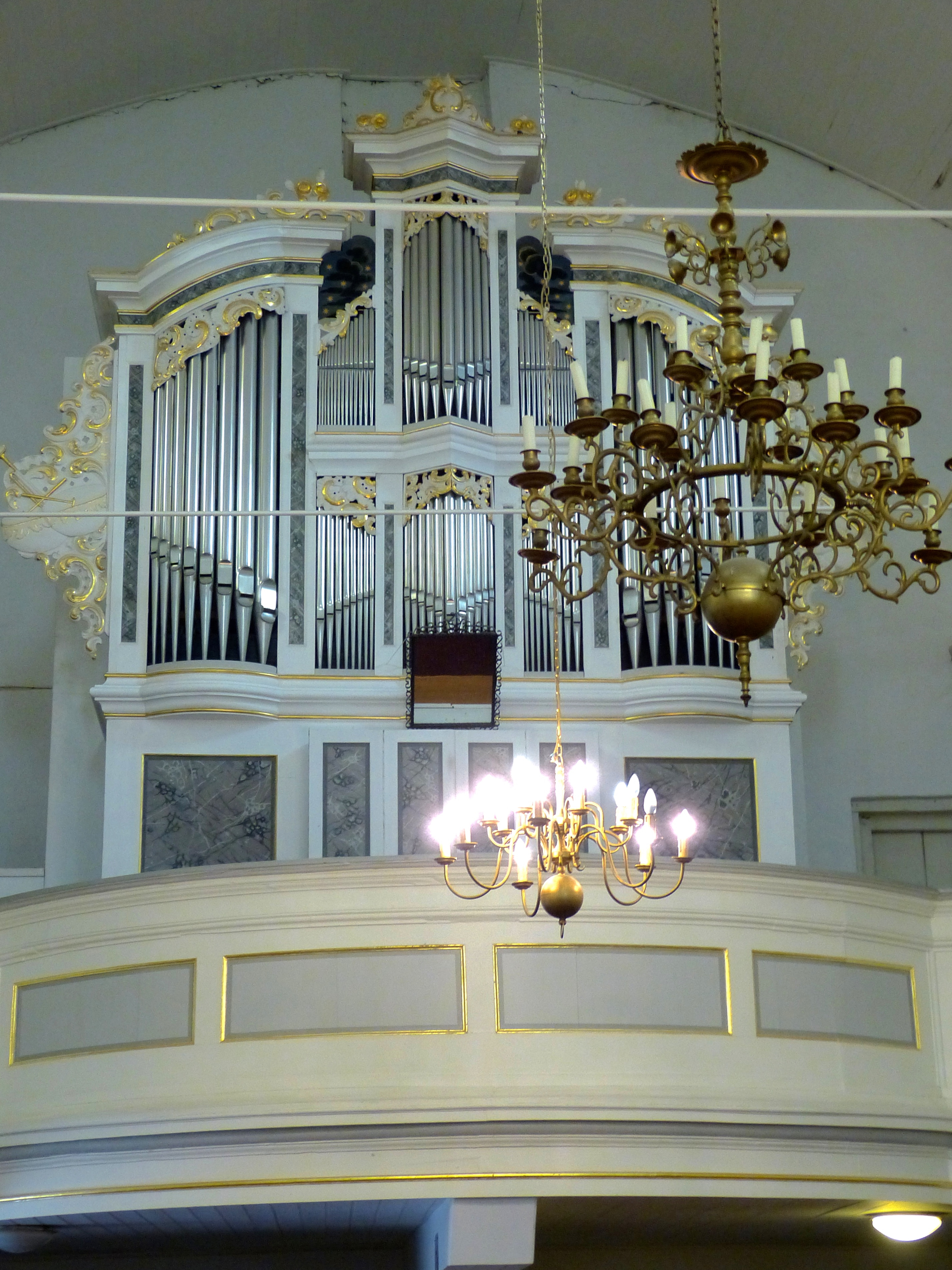 Dornheim ( Thuringia ). Parish church: Pipe organ ( 1766 )